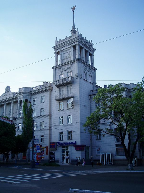 The house with a spike (western) Mariupol (Ukraine)